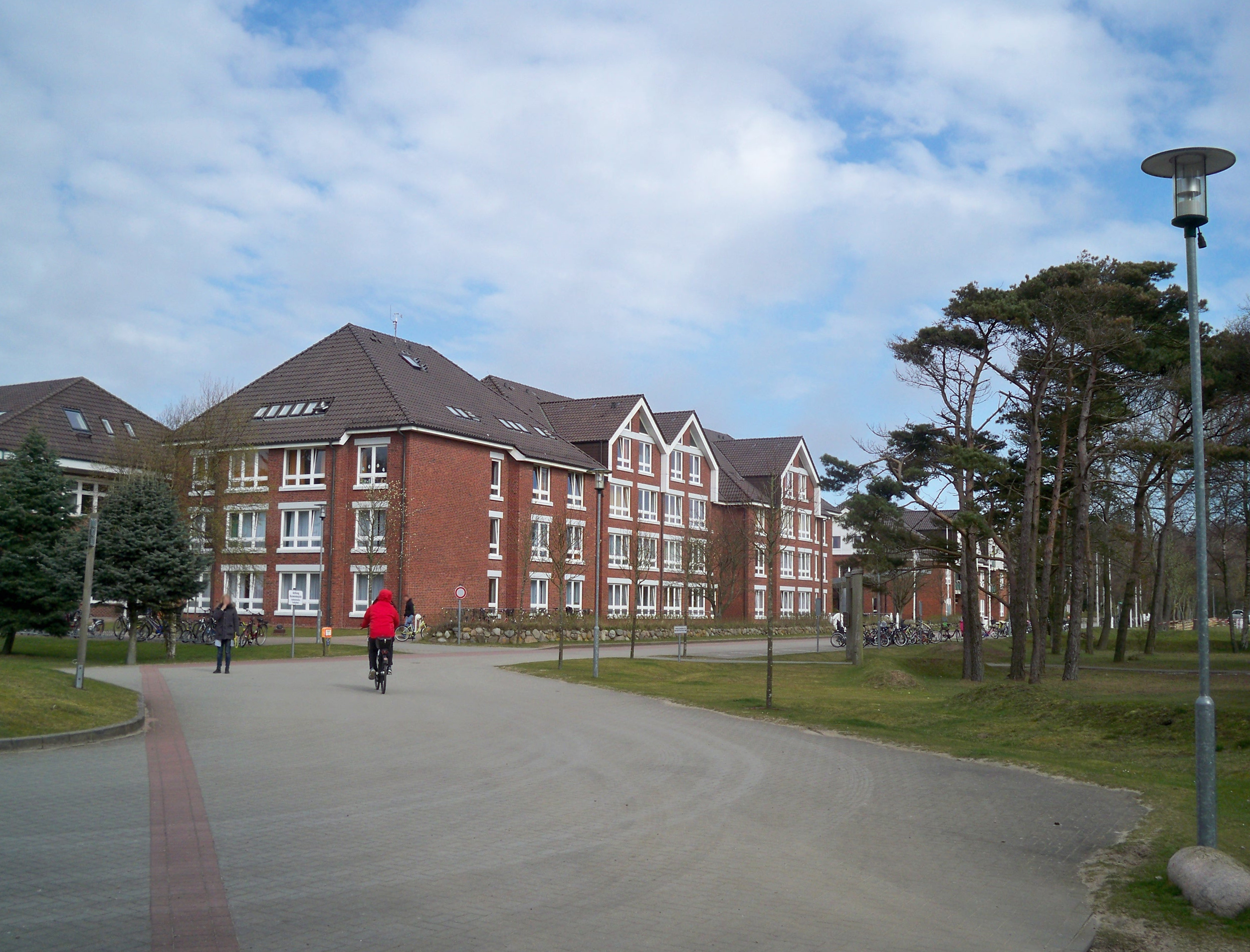 Nebel, Amrum, Schleswig-Holstein, children's rehabilitation hospital "Satteldüne"